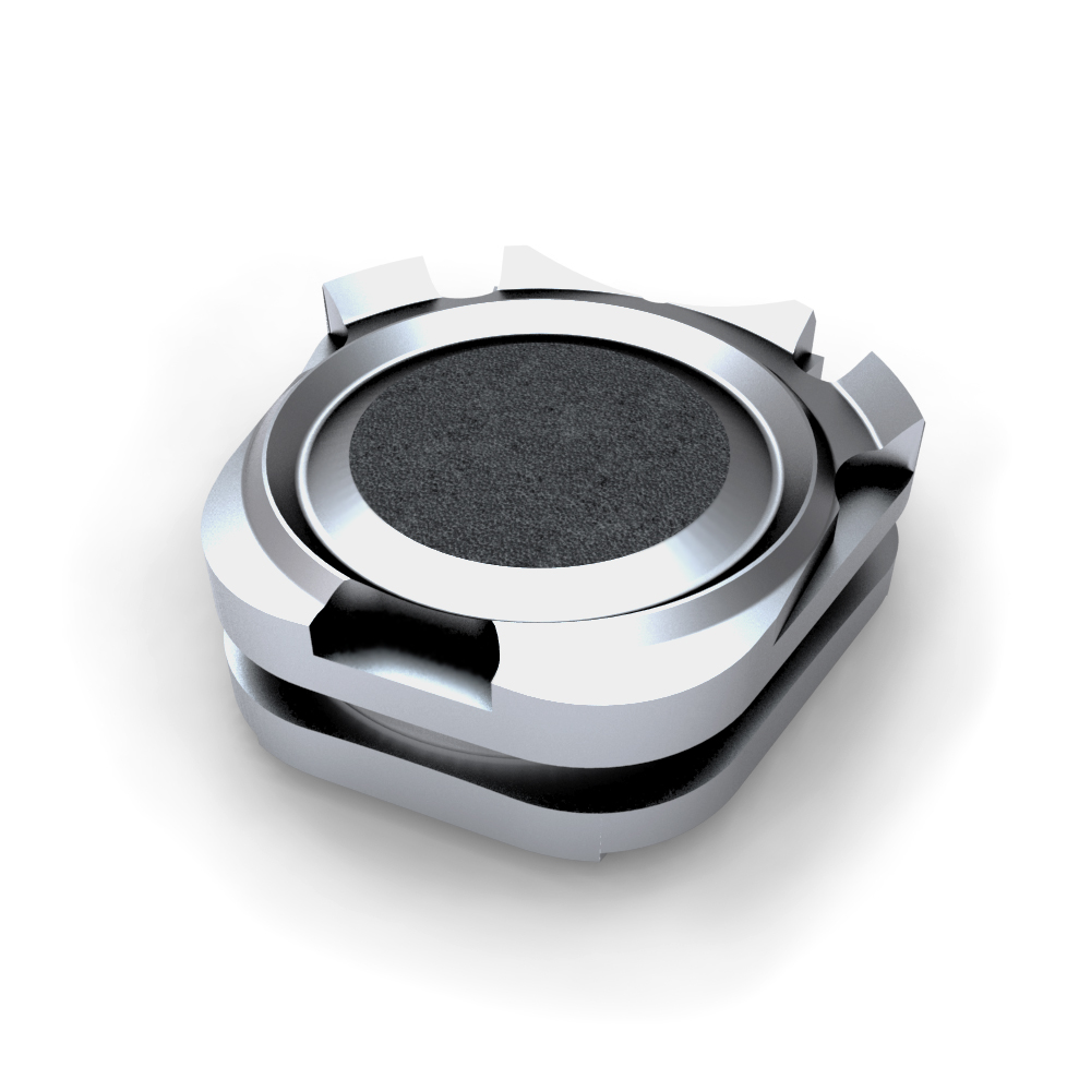 Cervical disc replacement